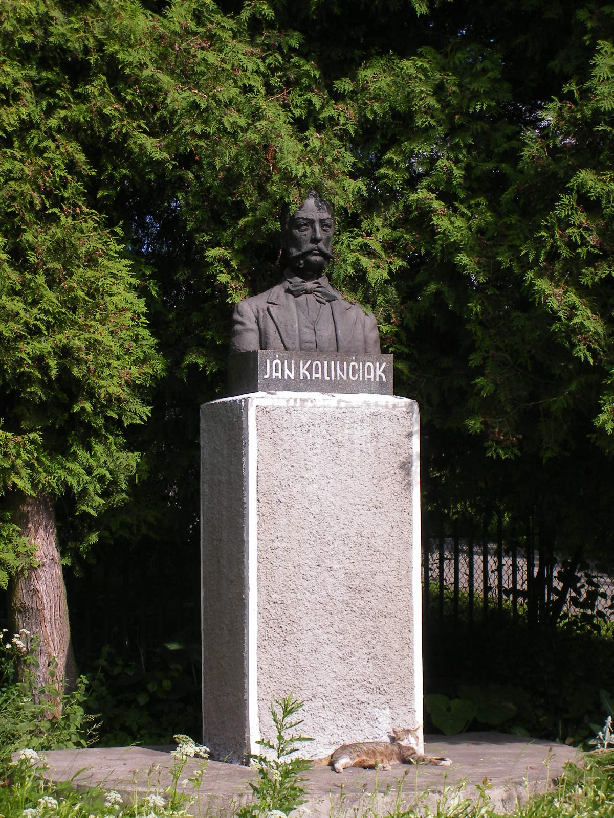 Martin/Záturčie - bust of Ján Kalinčiak